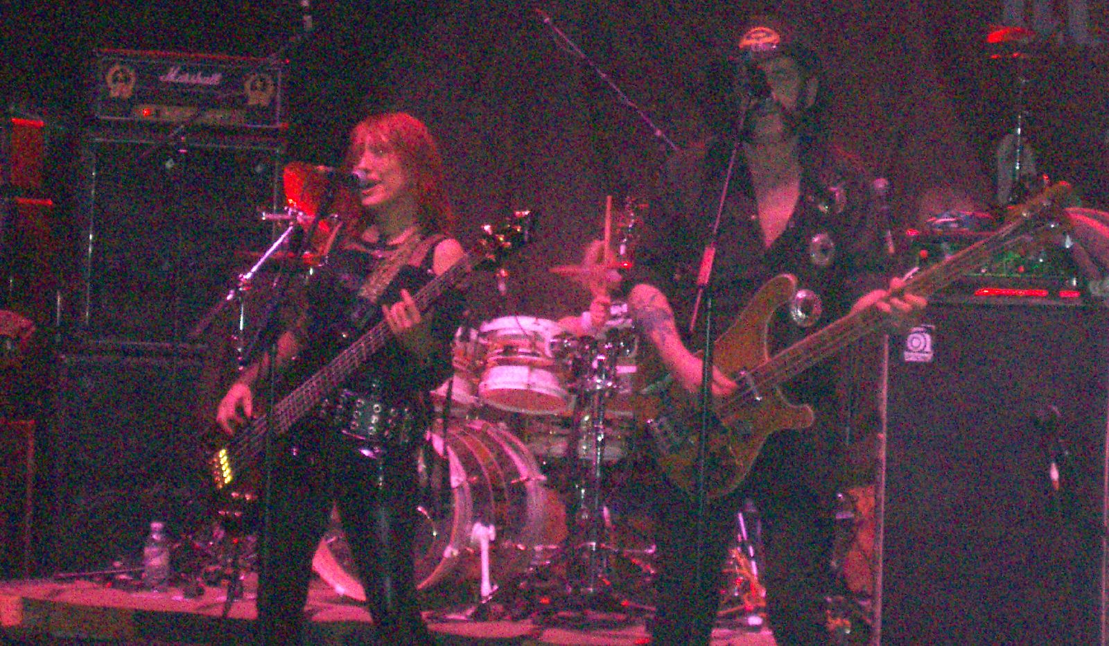 Girlschool's Enid Williams and Motorhead's Lemmy singing "Please Don't Touch" - 2009